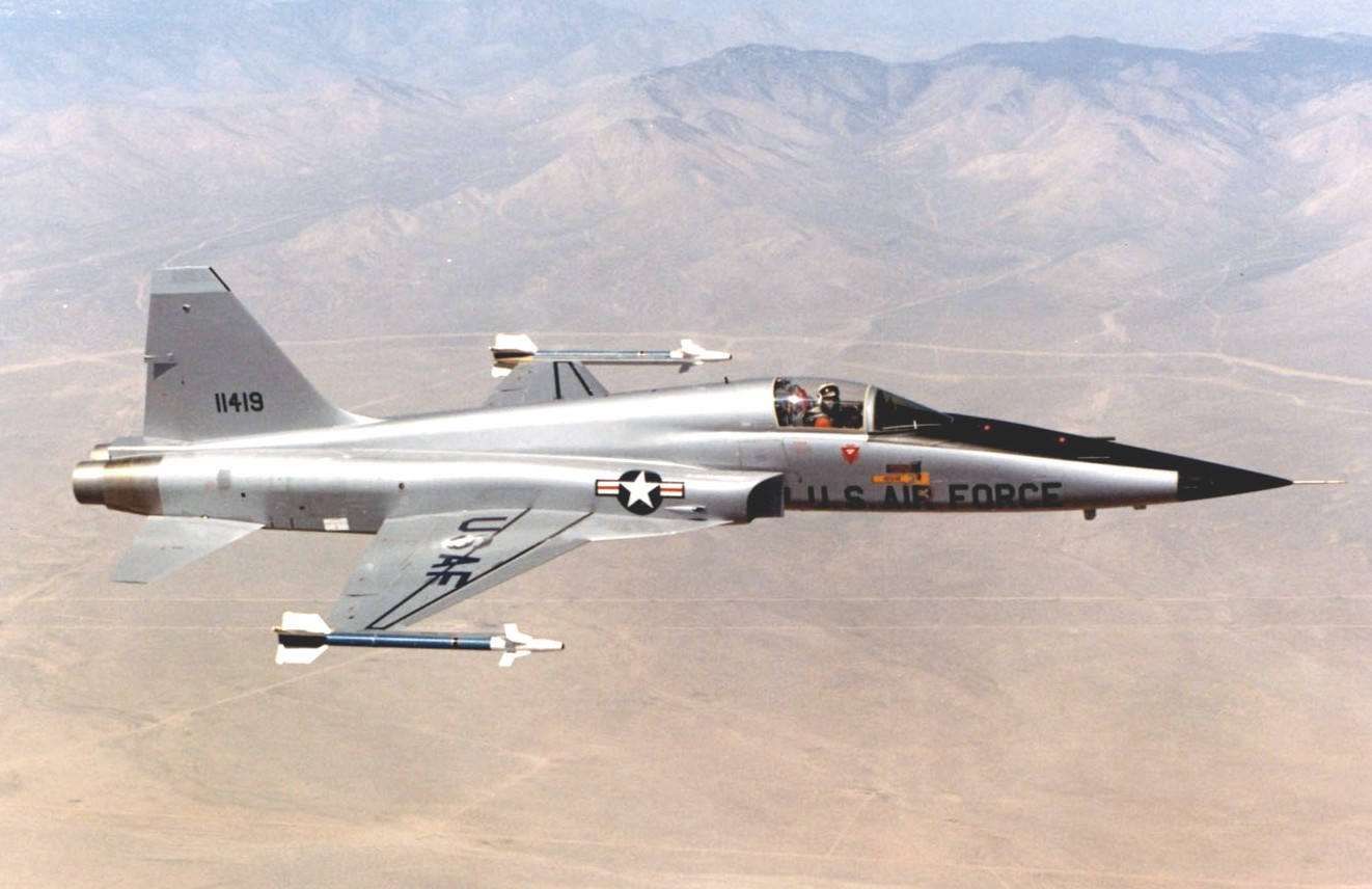 Northrop F-5E (Tail No. 11419). (U.S. Air Force photo)